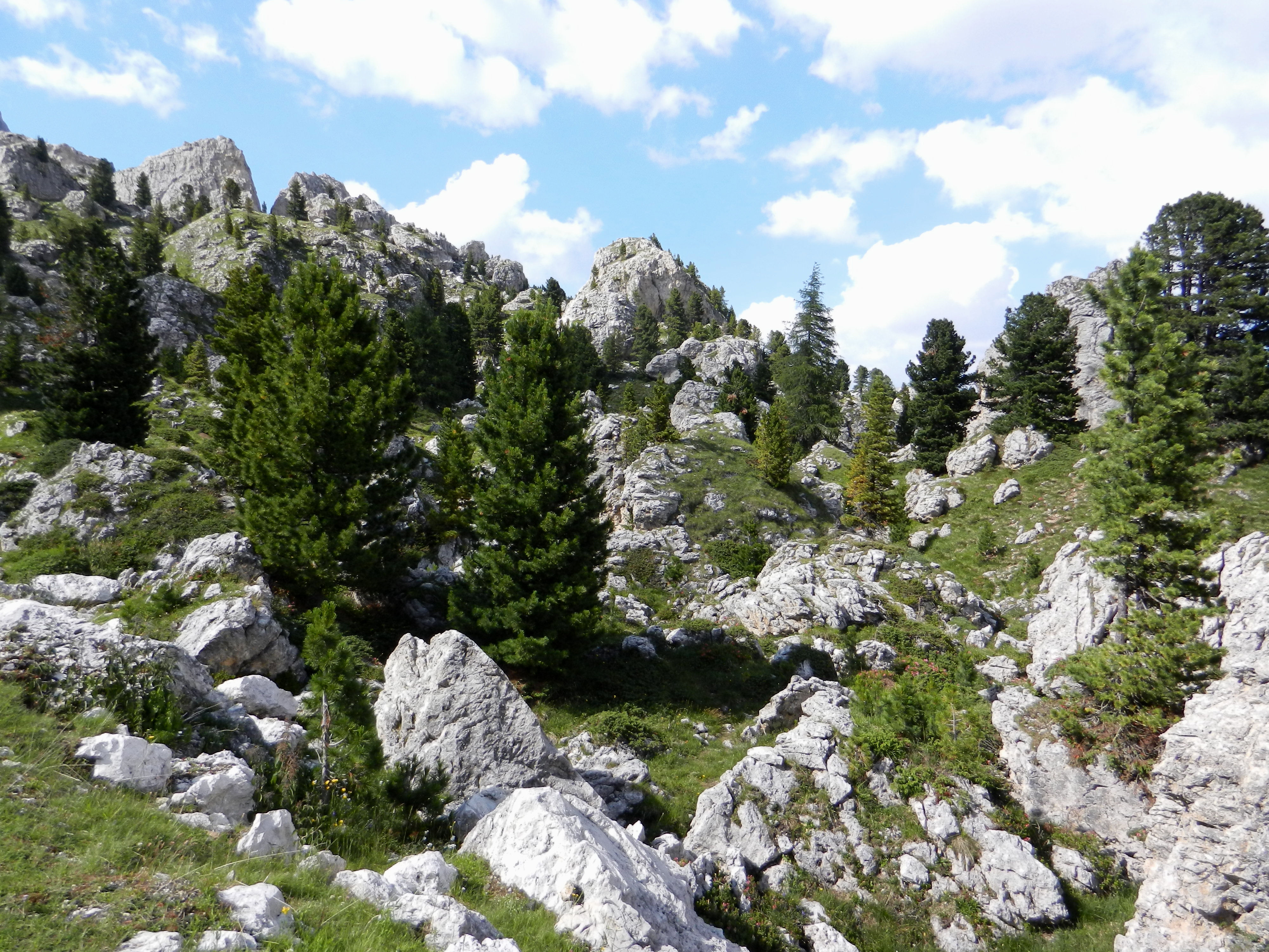 Dolomites, Sella Pass, the "Stones town"